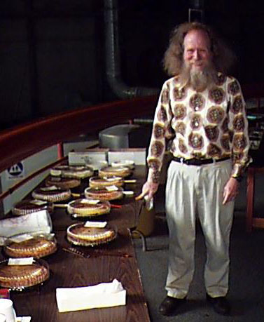 Larry Shaw, the founder of Pi Day, at the Exploratorium in San Francisco